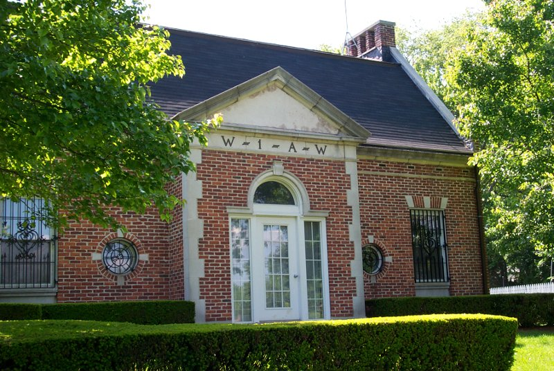 A picture of the W1AW Hiram Percy Maxim Memorial Station.